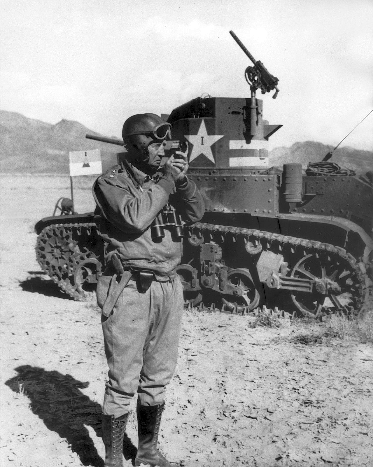 George S. Patton next to a M2 tank, Tunisia